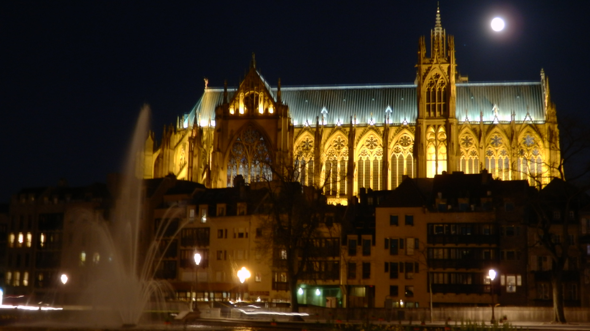 Located downtown Metz, France.